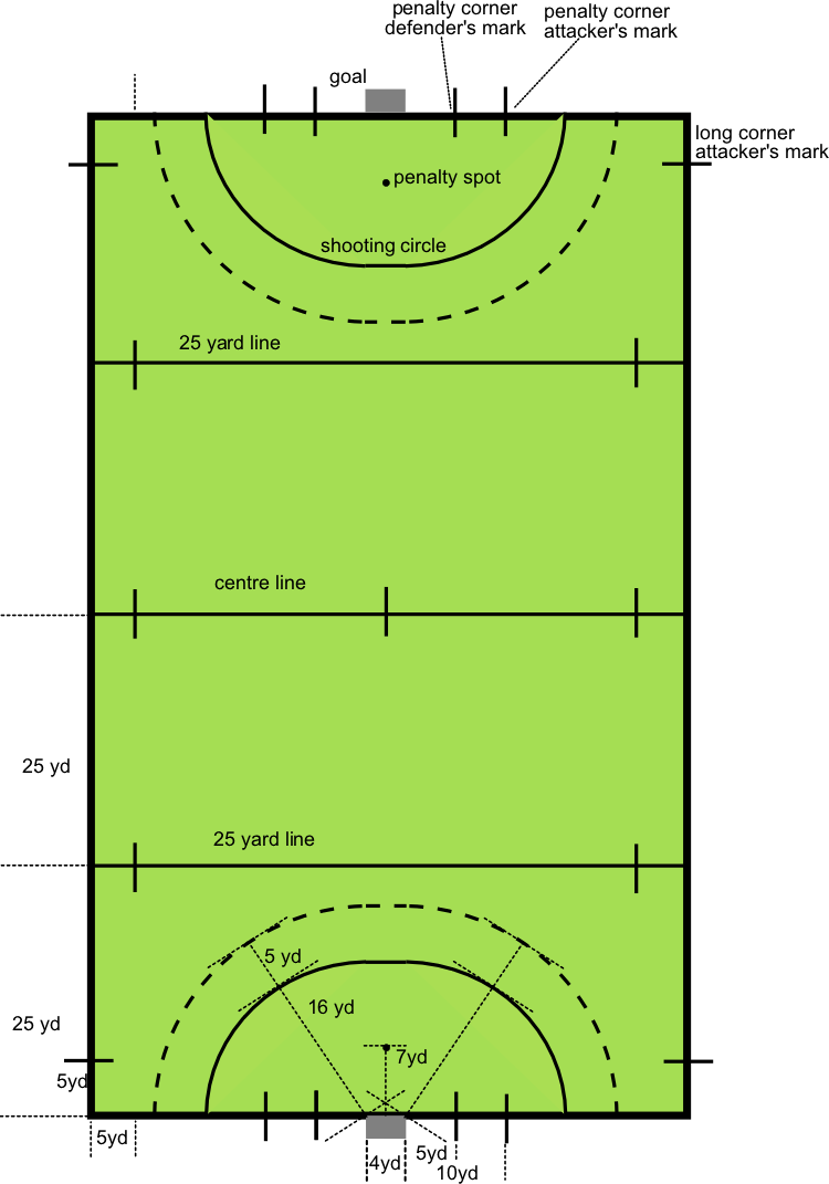 ÉÆlarger image of a hockey field. Image created by Robert Merkel and placed in the public domain by the author. SVG source at Image:hockey_field.svg